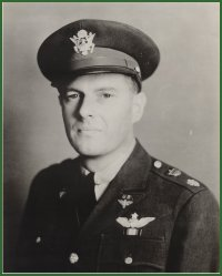 Official US Army photo of Robert Olds